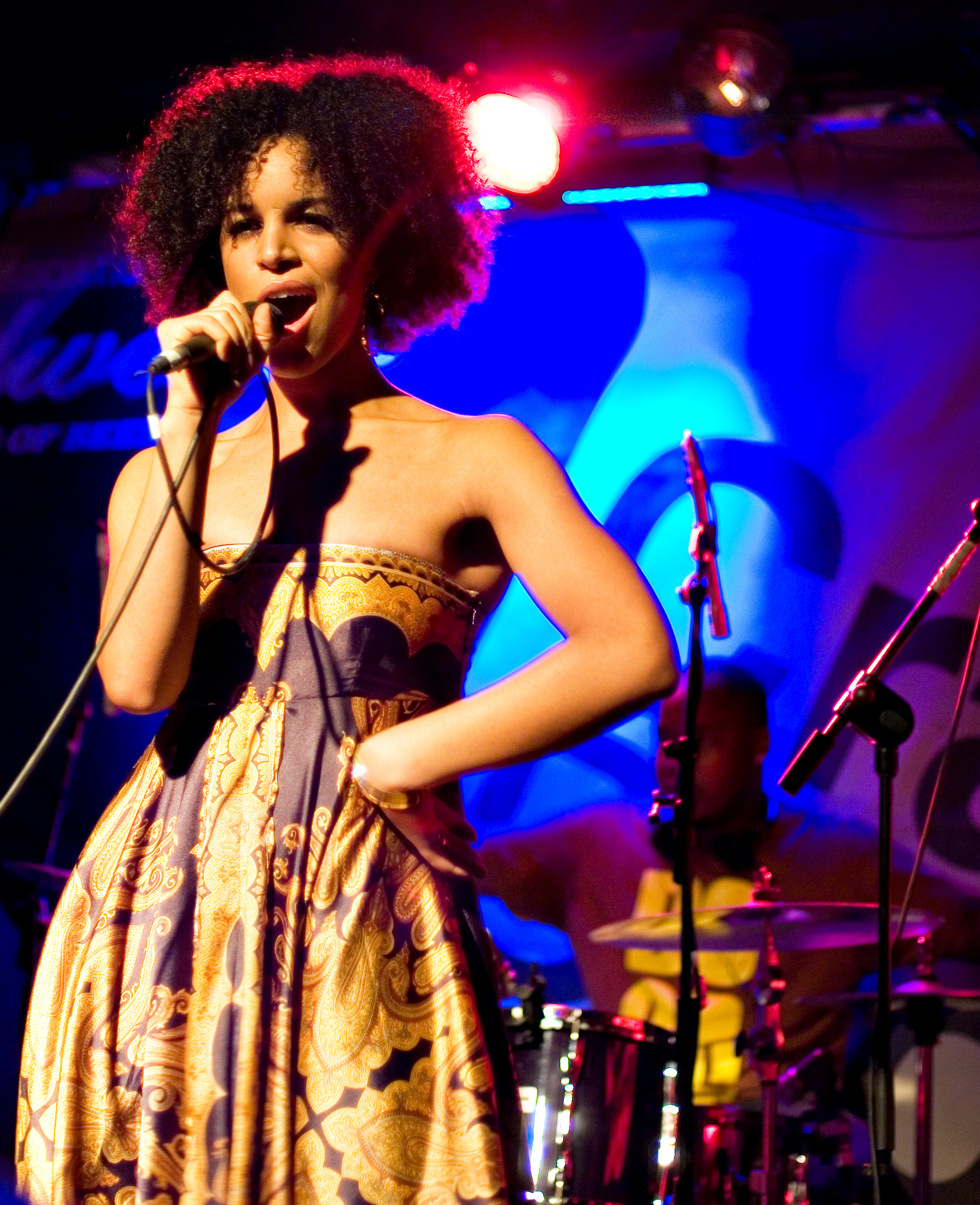 Laura Izibor performing at Crawdaddy in Dublin, Ireland, on October 23, 2008.